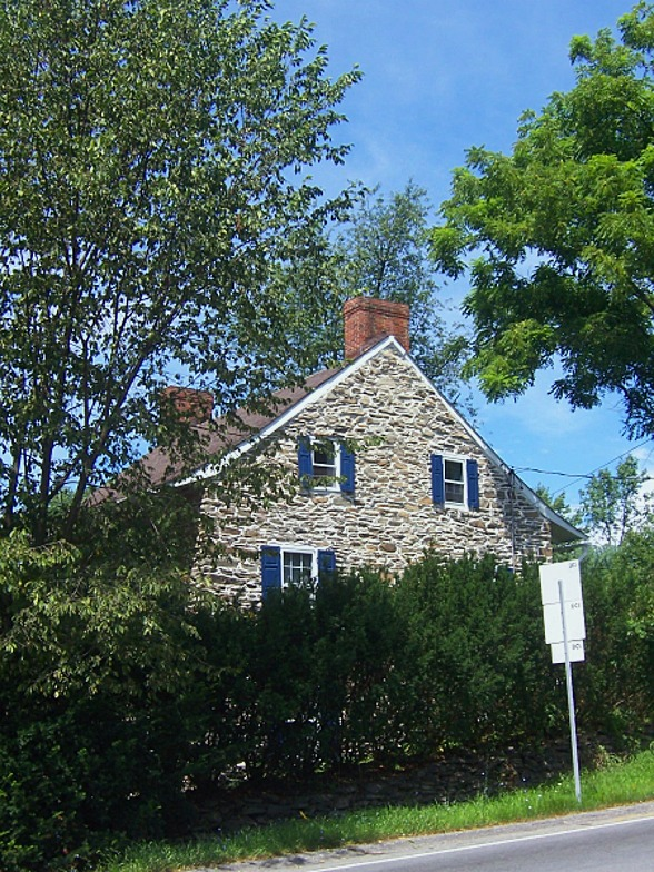 Photographed by Daniel Case 2005-08-06